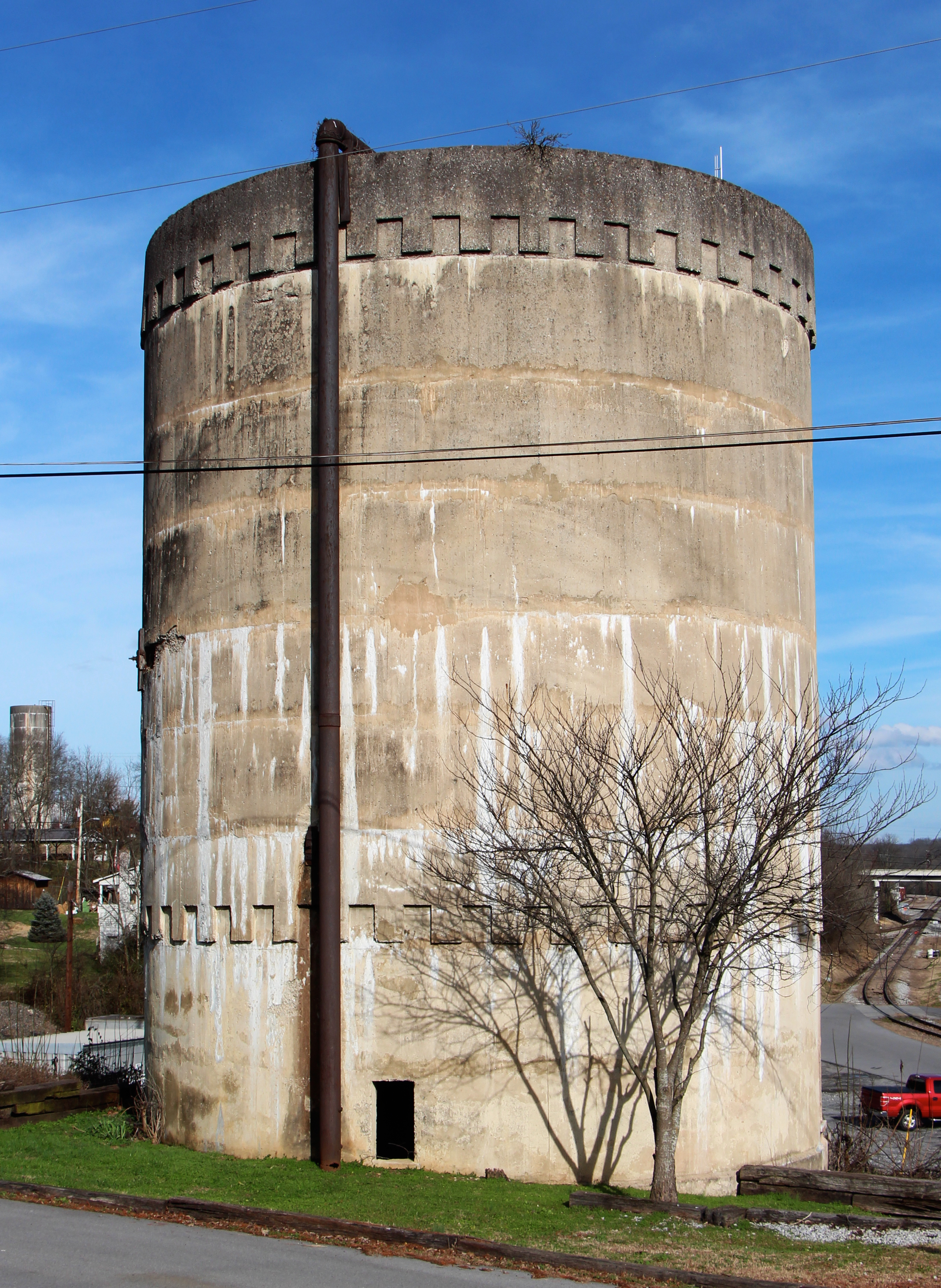 Bulls Gap Southern Railway Water Tower, Church Street